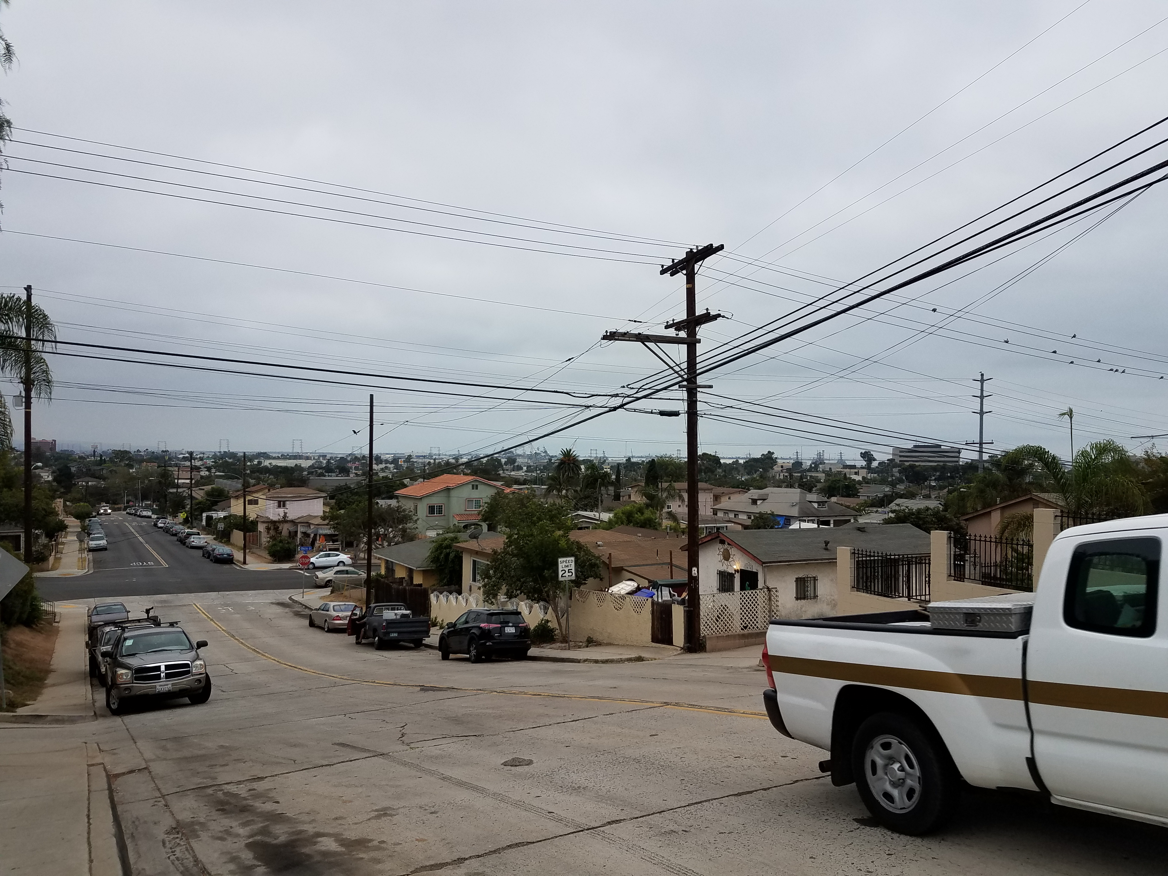 A picture taken on 40th Street, looking south, towards National City. Naval Base San Diego can be seen in the distance. The back half of a County of San Diego truck can be seen as it drove by. Taken in the Shelltown neighborhood of San Diego.